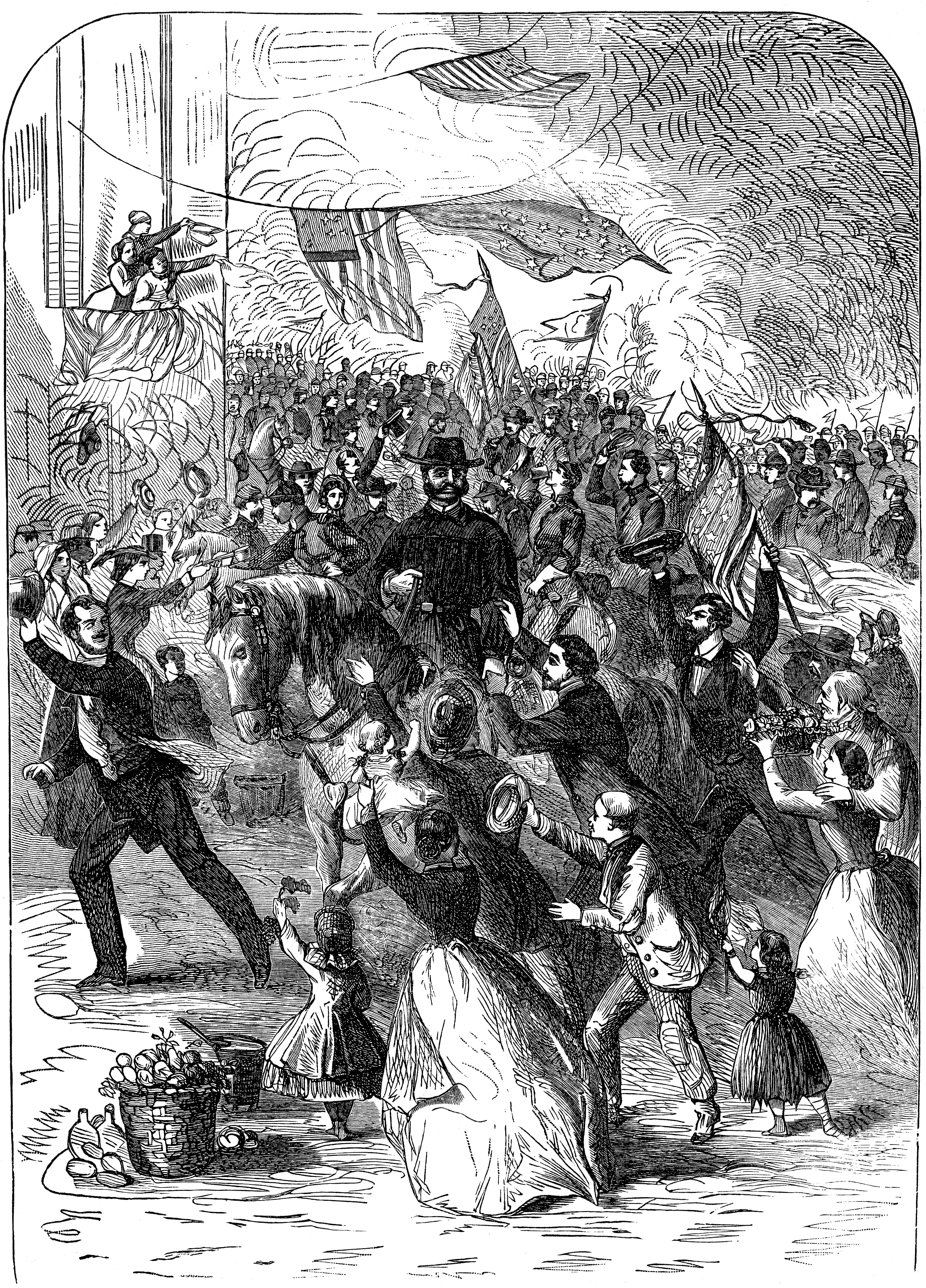 "The War in East Tennessee - Reception of General Burnside by the Unionists of Knoxville," sketch on the front cover of the October 24, 1863, edition of Harper's Weekly, showing Union supporters in Knoxville, Tennessee, USA, greeting General Ambrose Burnside, who entered the city unopposed in September 1863, at the height of the Civil War.